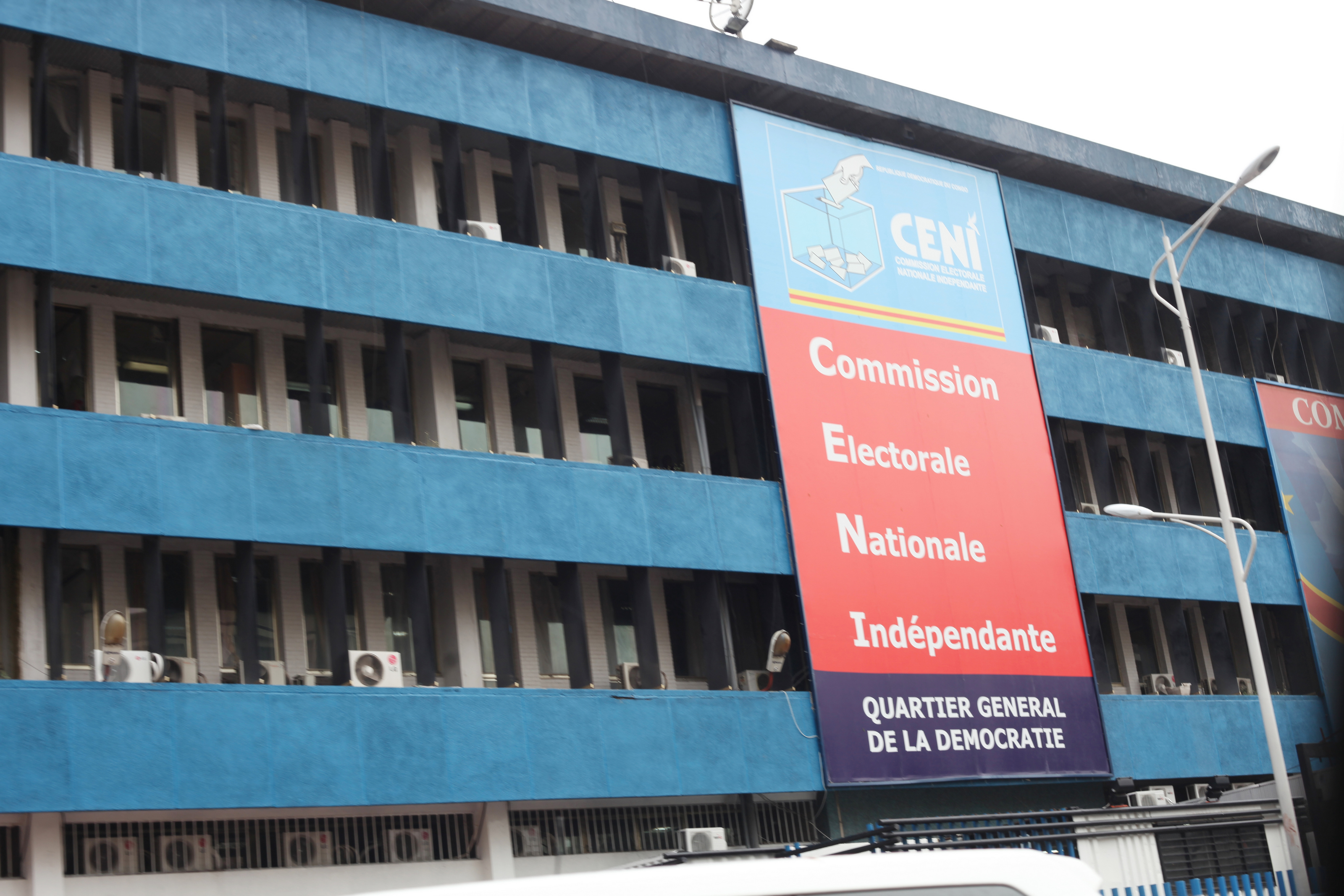 DRC Kinshasa 28th of November 2011. Elections Day, Voting Day and Ballots counting. MONUSCO / Myriam Asmani